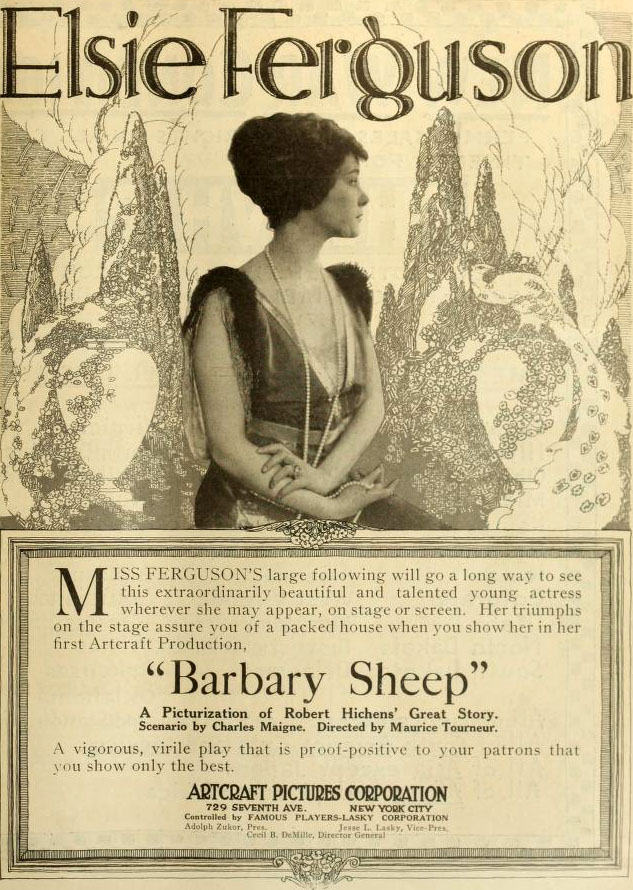 Advertisement in Moving Picture World for the film Barbary Sheep (1917).